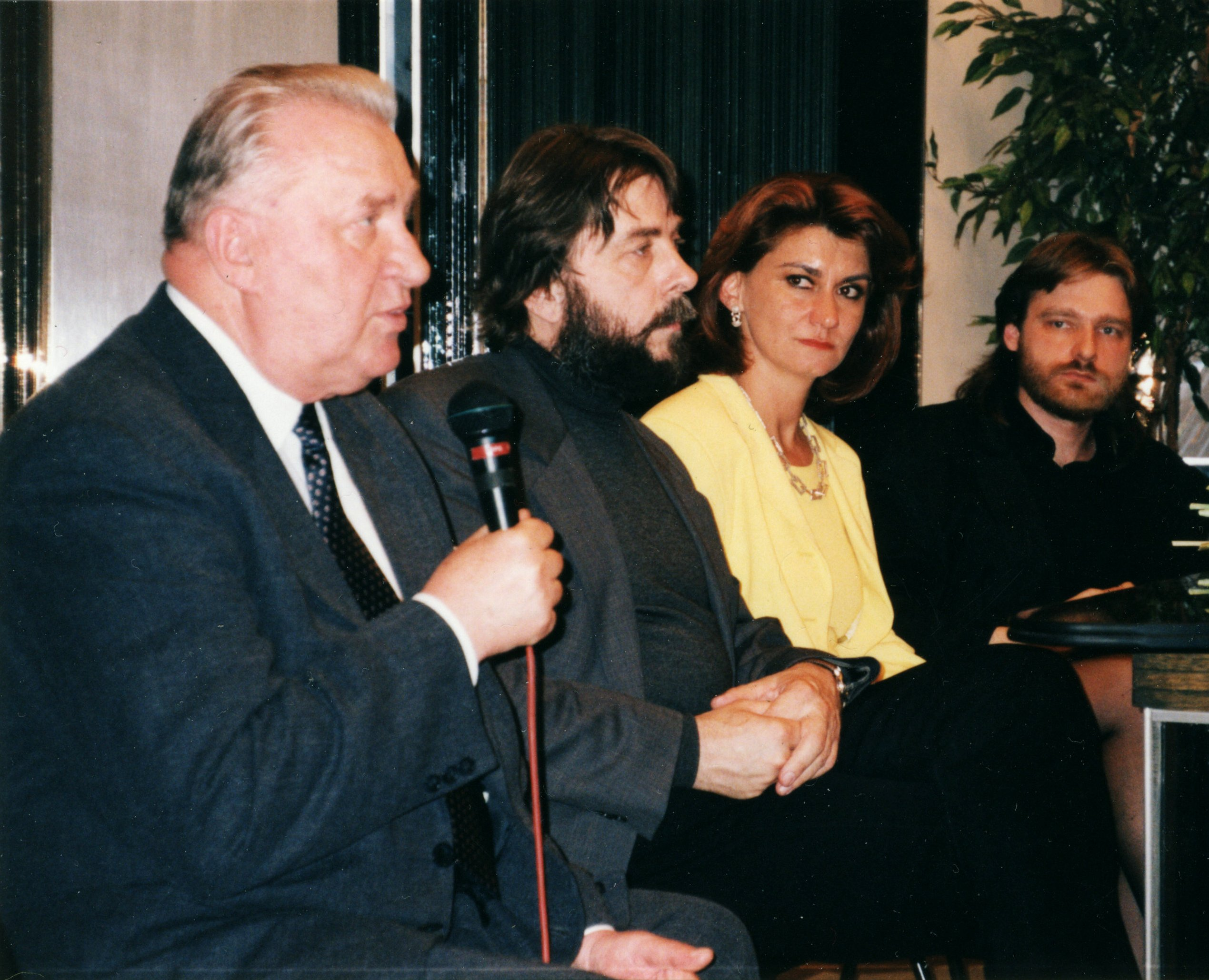 Launch of the book, Únos prezidentovho syna, alebo, Krátke dejiny tajnej služby [The Kidnapping of the President's Son, or a Short History of the Secret Service] by Ľuba Lesná; October 1998. From left: Michal Kováč, former President, Slovak Republic; Ladislav Snopko, former Slovak Minister of Culture; the book's author, Ľuba Lesná; and Marián Balázs, former priest.